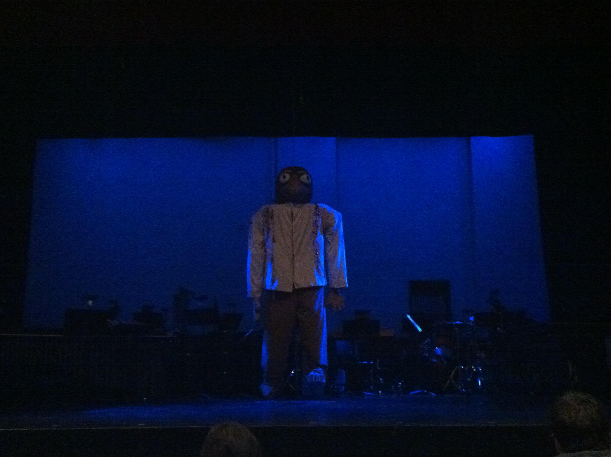 Miron hangs above the stage before a performance of Karlheinz Stockhausen's Musik im Bauch (1975) at NYU Steinhardt, 7 May 2011.